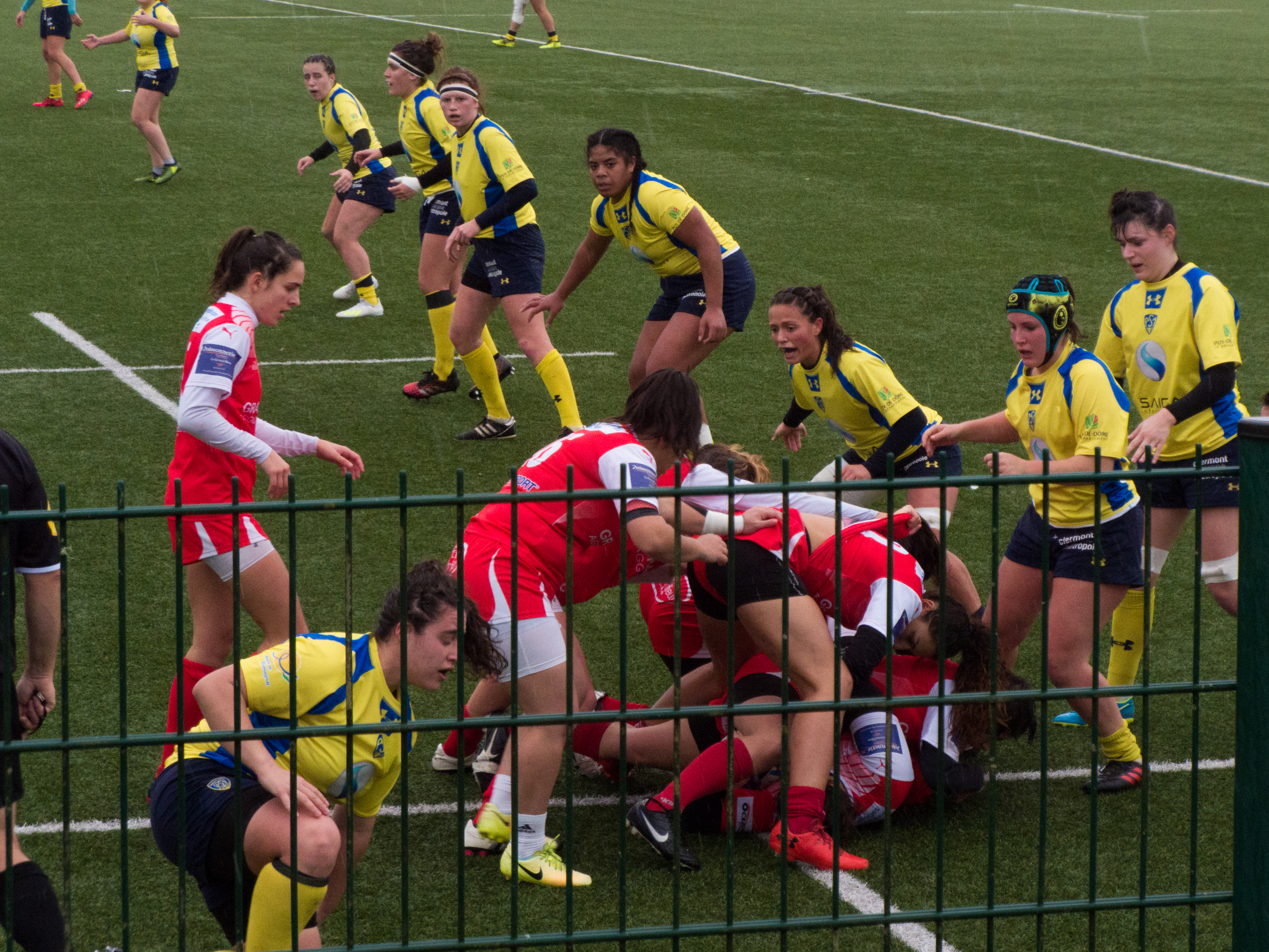 Q65123335 — 17 November 2019, stade Colette-Besson. Match between: Q3360155 — ASM Romagnat rugby féminin